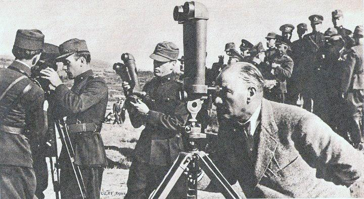 Kemal Atatürk (or alternatively written as Kamâl Atatürk, Mustafa Kemal Pasha until 1934, commonly referred to as Mustafa Kemal Atatürk; 1881 – 10 November 1938) was a Turkish field marshal, revolutionary statesman, author, and the founding father of the Republic of Turkey, serving as its first President from 1923 until his death in 1938. He undertook sweeping progressive reforms, which modernized Turkey into a secular, industrial nation. Ideologically a secularist and nationalist, his policies and theories became known as Kemalism. Due to his military and political accomplishments, Atatürk is regarded as one of the most important political leaders of the 20th century.